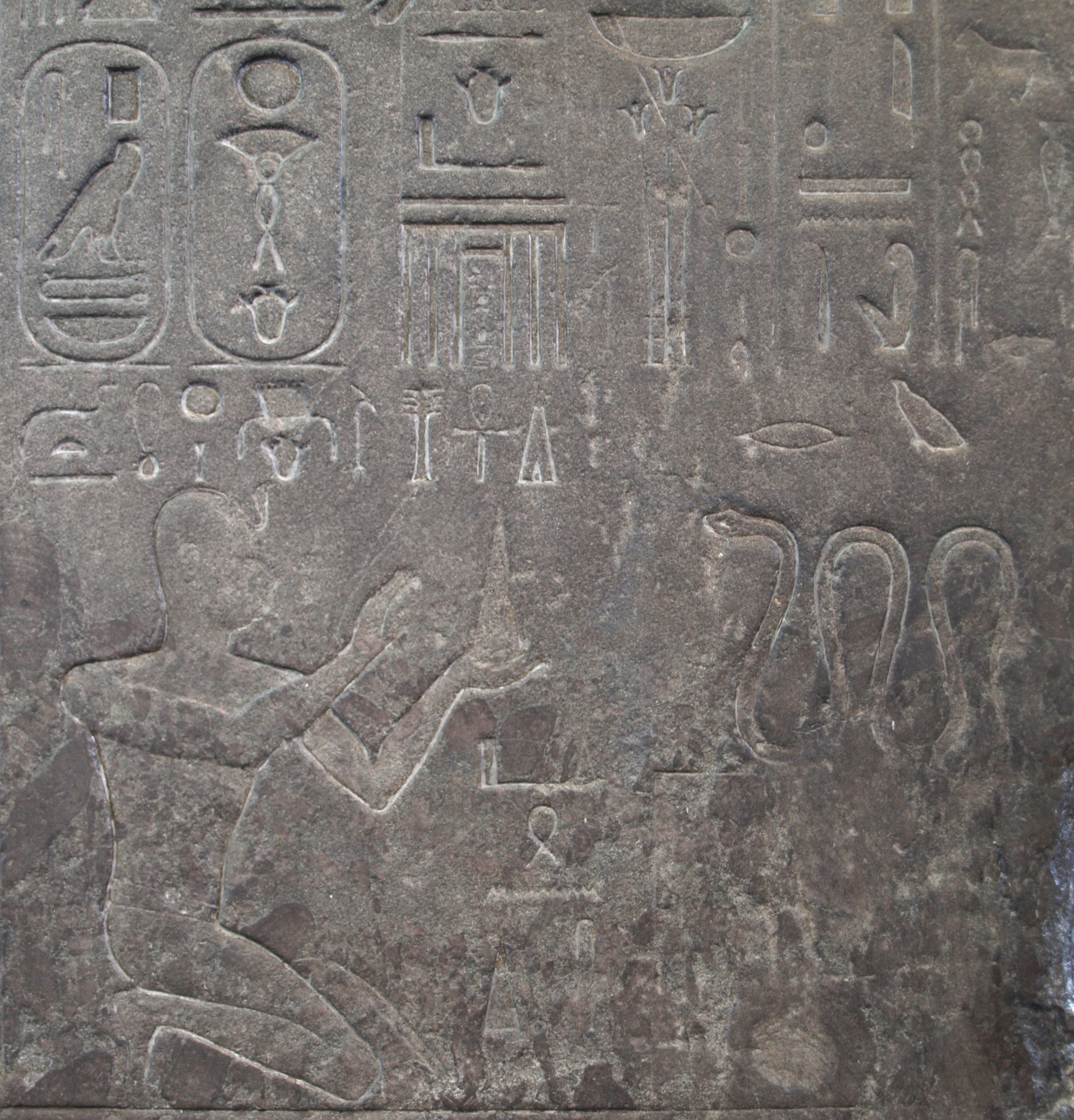 Detail of a low basalt wall section, likely from a temple, depicting the pharaoh Psamtik I in relief giving offerings to the god Atum. Originally from Rosetta, from the reign of Psamtek I (664-610 BC). EA 20.